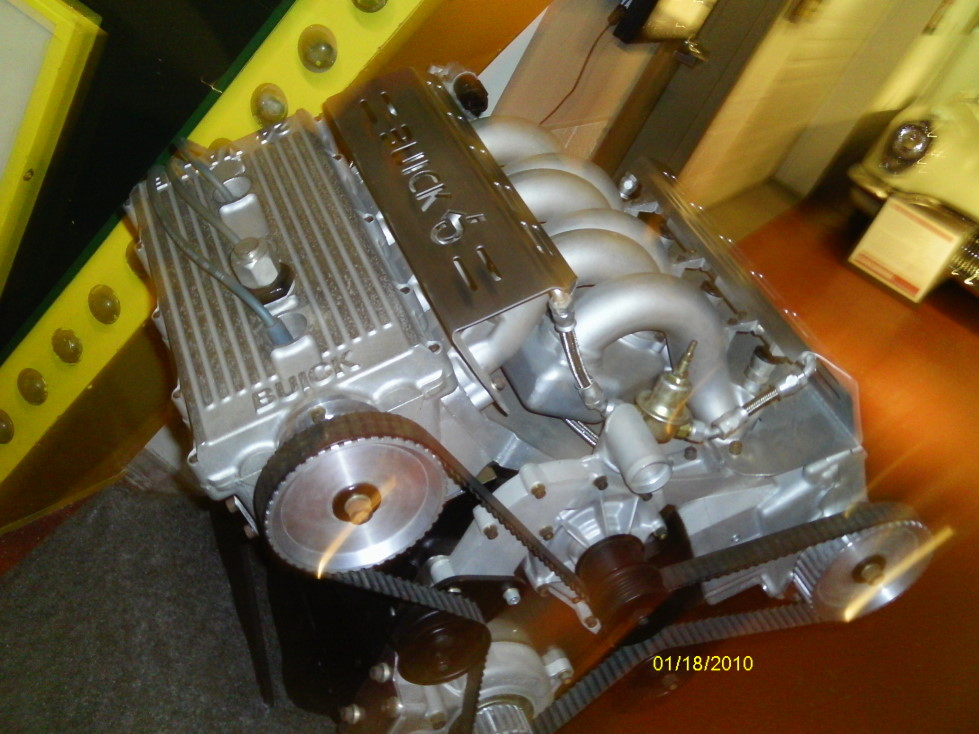 1985 Buick Wildcat 24-valve DOHC Prototype Engine V-6 V6 in the Sloan Museum and Buick Automotive Gallery and Research Center at Flint, Michigan